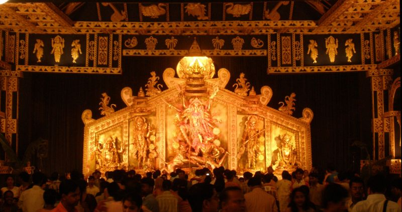 Durga image from Cooperative Park Puja, Chittaranjan Park, New Delhi